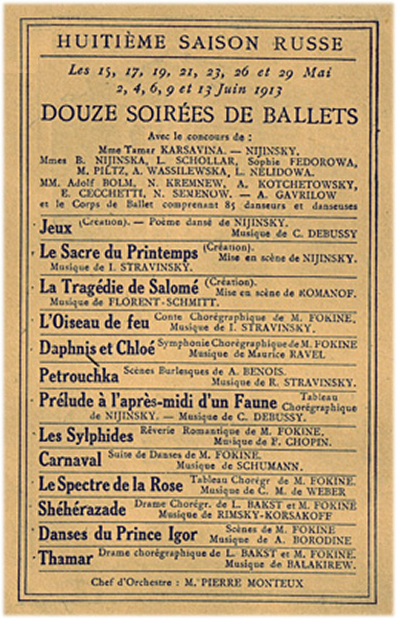 copy of original Ballets Russes programme, staged by Sergei Diaghilev in Paris, 1913